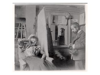 photo of Misia Sert and Henri Toulouse-Lautrec in Lautrec's studio